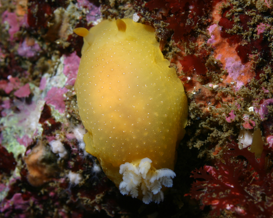 Doriopsilla albopunctata is a dorid nudibranch with a yellow body, white spots, and a white branchial plume.